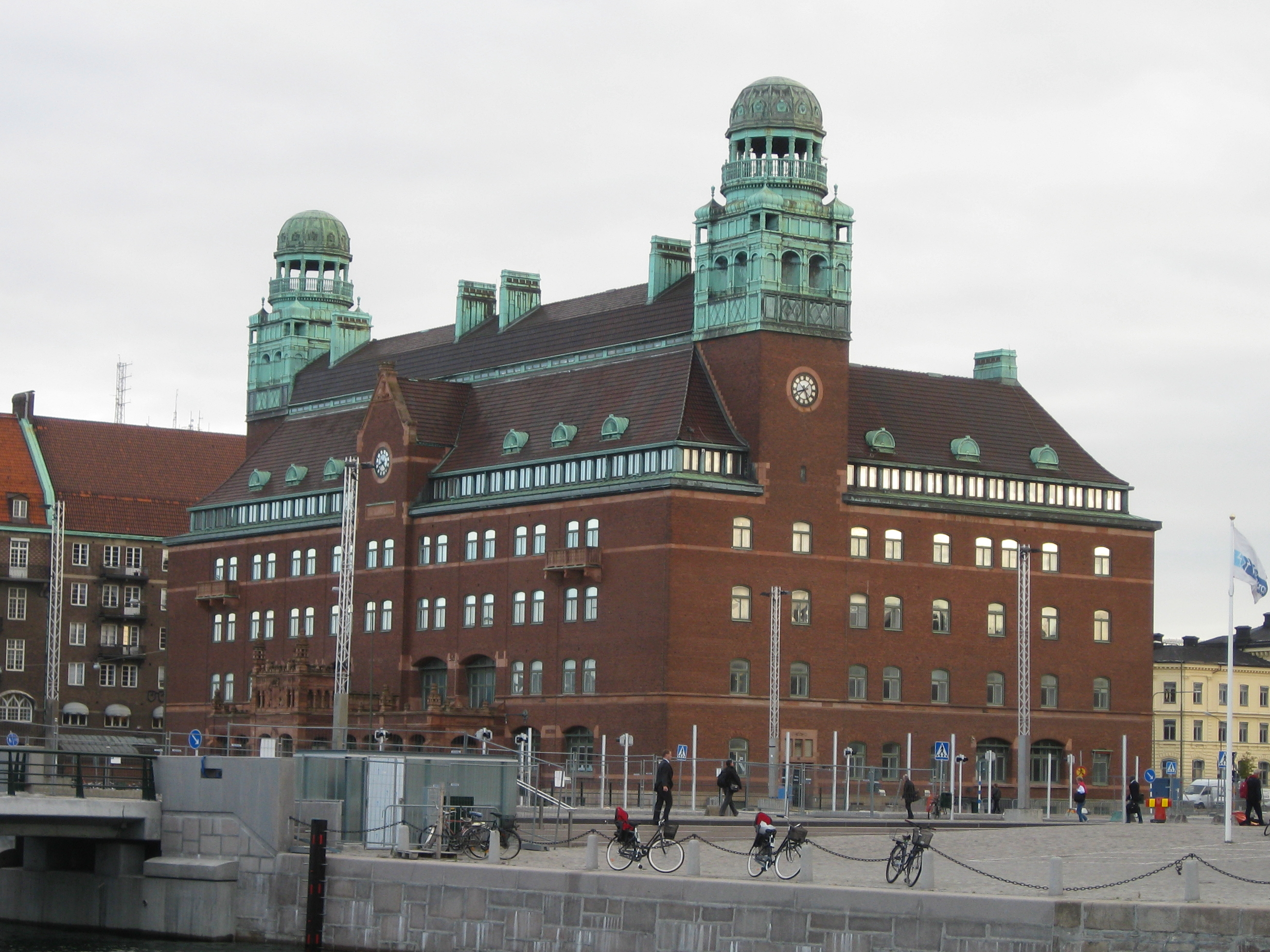 Old postal house in Malmö, Sweden. Located near the central station, by the harbour. The house was constructed in 1906, architect was Ferdinand Boberg. It is today used by the company Volito.